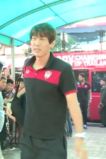 Kim Yoo-Jin before game Thai Premier League Ostospa Saraburi - Muangthong United